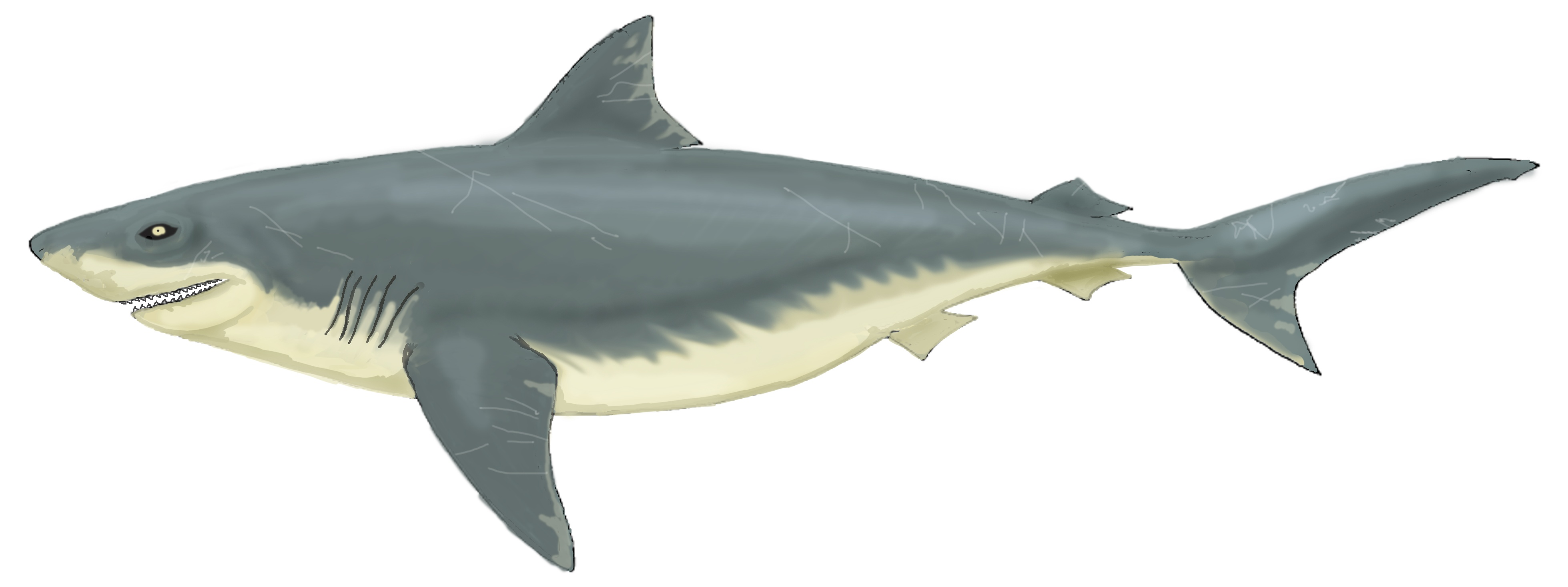 Squalicorax falcatus, extinct shark from Late Cretaceous of Kansas. Length about 2 m.